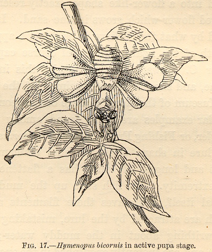 Figure 17, "Hymenopus bicornis in active pupa stage", from "The Colours of Animals" by Sir Edward Bagnall Poulton, 1890, engraved from a drawing by James Wood-Mason 1889. The name is a synonym for Hymenopus coronatus.